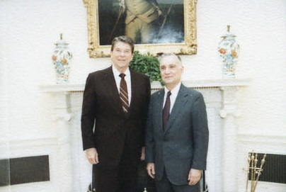 Alberto Martinez Piedra poses with Ronald Reagan in Oval Office